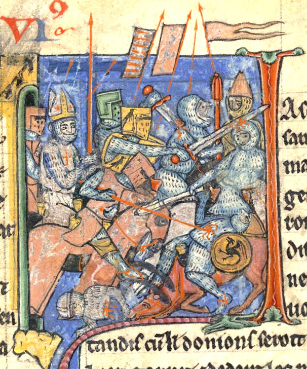 The Holy Lance held by Adhémar du Puy before Antioch